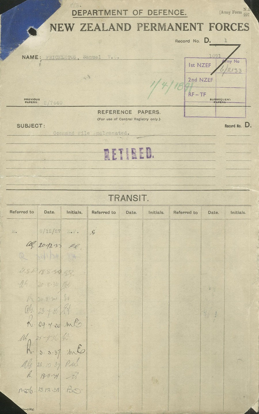 Personnel file (1915 - 1950) of Samuel Frickleton. Served during WWI in the New Zealand Staff Corps. Recipient of the Victora Cross (Gallantry Medal). Archives New Zealand Reference: AAAL 18806 W478 2